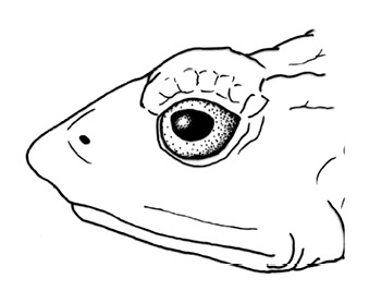 Head shape in lateral view of Osornophryne talipes male, ICN 12256.